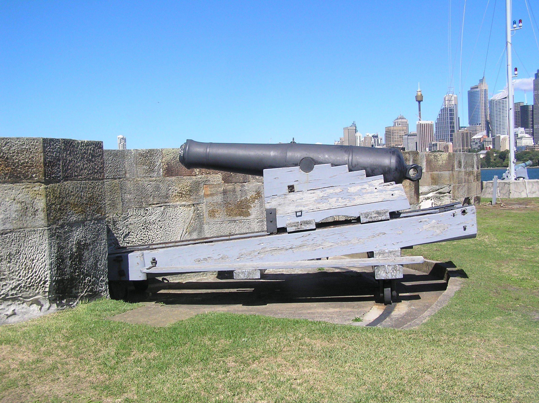 British SBML (smoothbore muzzle-loading) 8 inch 65 cwt shell gun on the southern bastion of Fort Denison, Sydney.